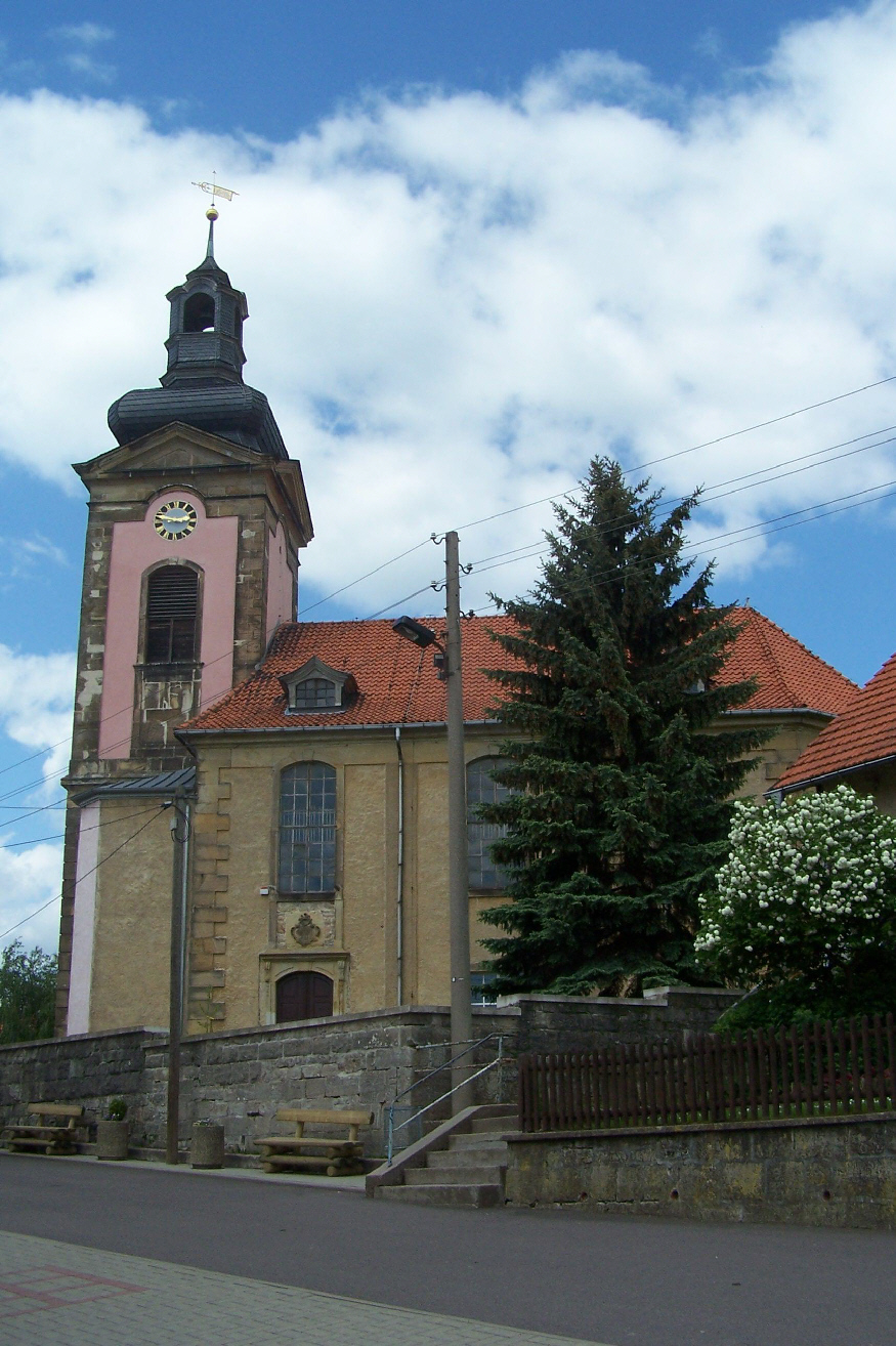 The church in Berka vor dem Hainich.